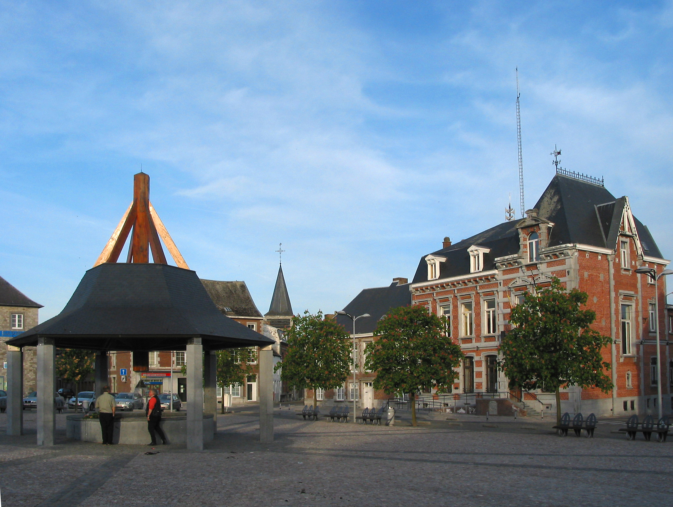 Philippeville (Belgium), place d’Armes – The town hall.